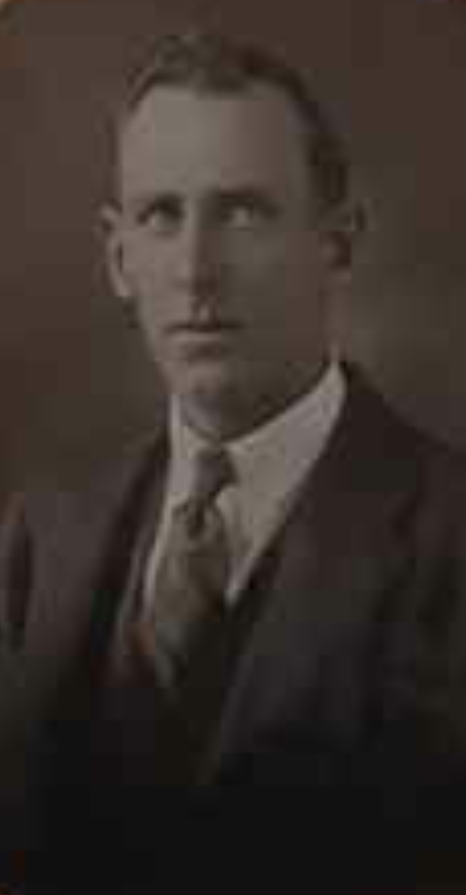 Edward Michael Burke also known as Paddy Burke